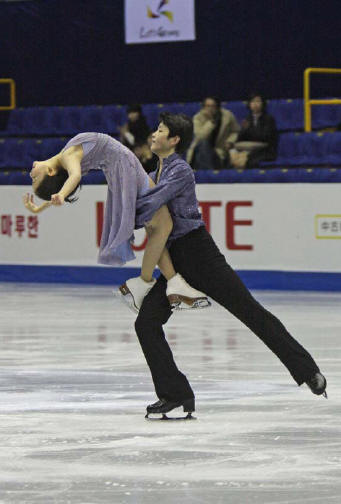 Maia Shibutani & Alex Shibutani (USA) perform a straight-line lift as the first lift in a combination lift during their free dance at the 2008-2009 Junior Grand Prix Final. They placed 3rd in this segment of the competition and 4th overall.